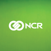 2013 NCR logo, in white on a green block background. The latest variant of the logo originally designed by Saul Bass.